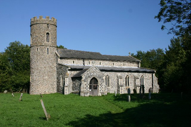 All Saints' parish church, All Saints South Elmham, Suffolk, seen from the south